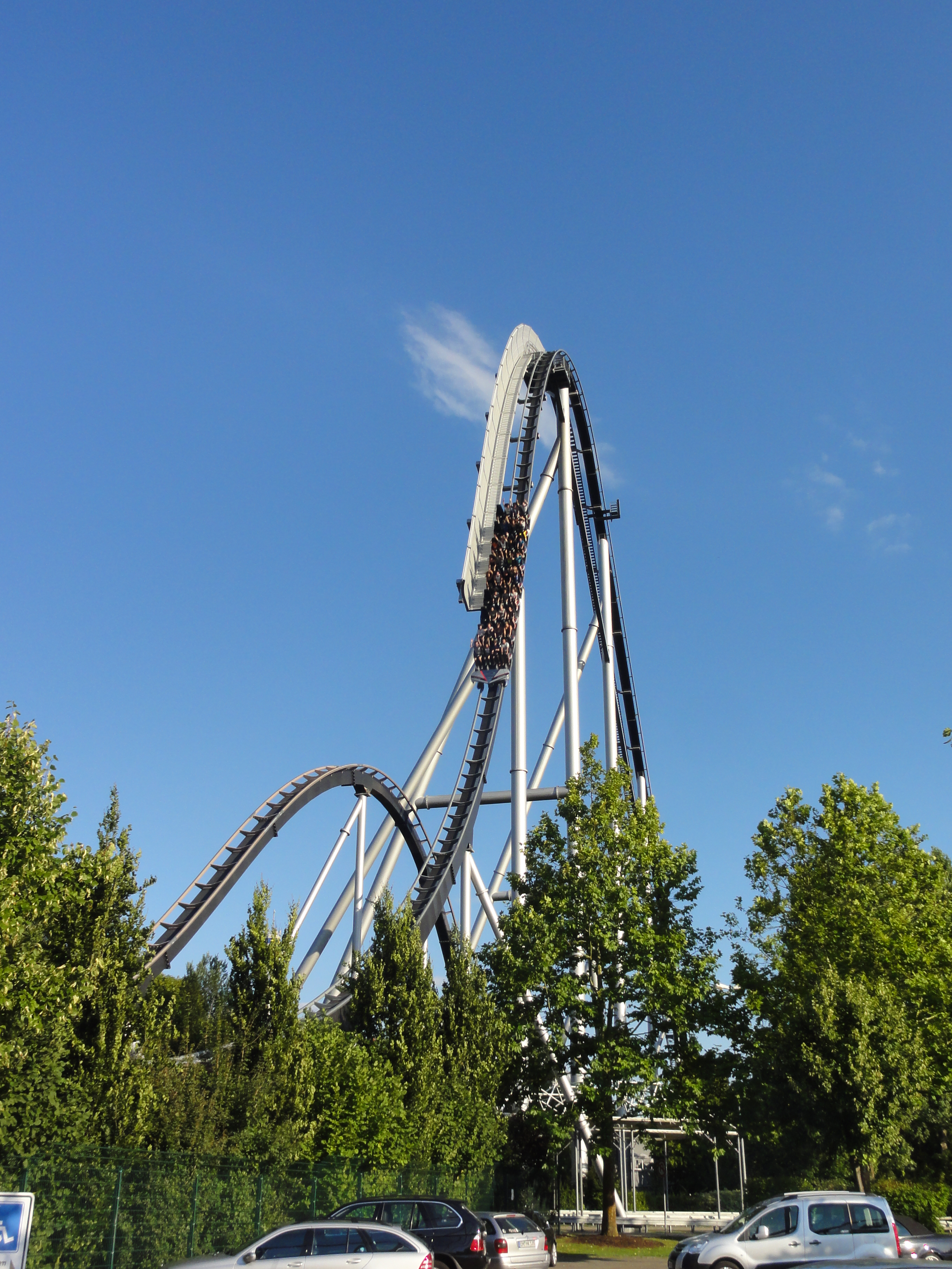 Silver Star, Europa-Park, Rust, Baden-Württemberg, Germany.